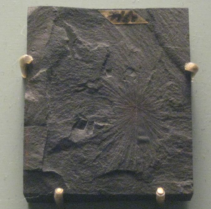 Sponge From the Burgess Shale.